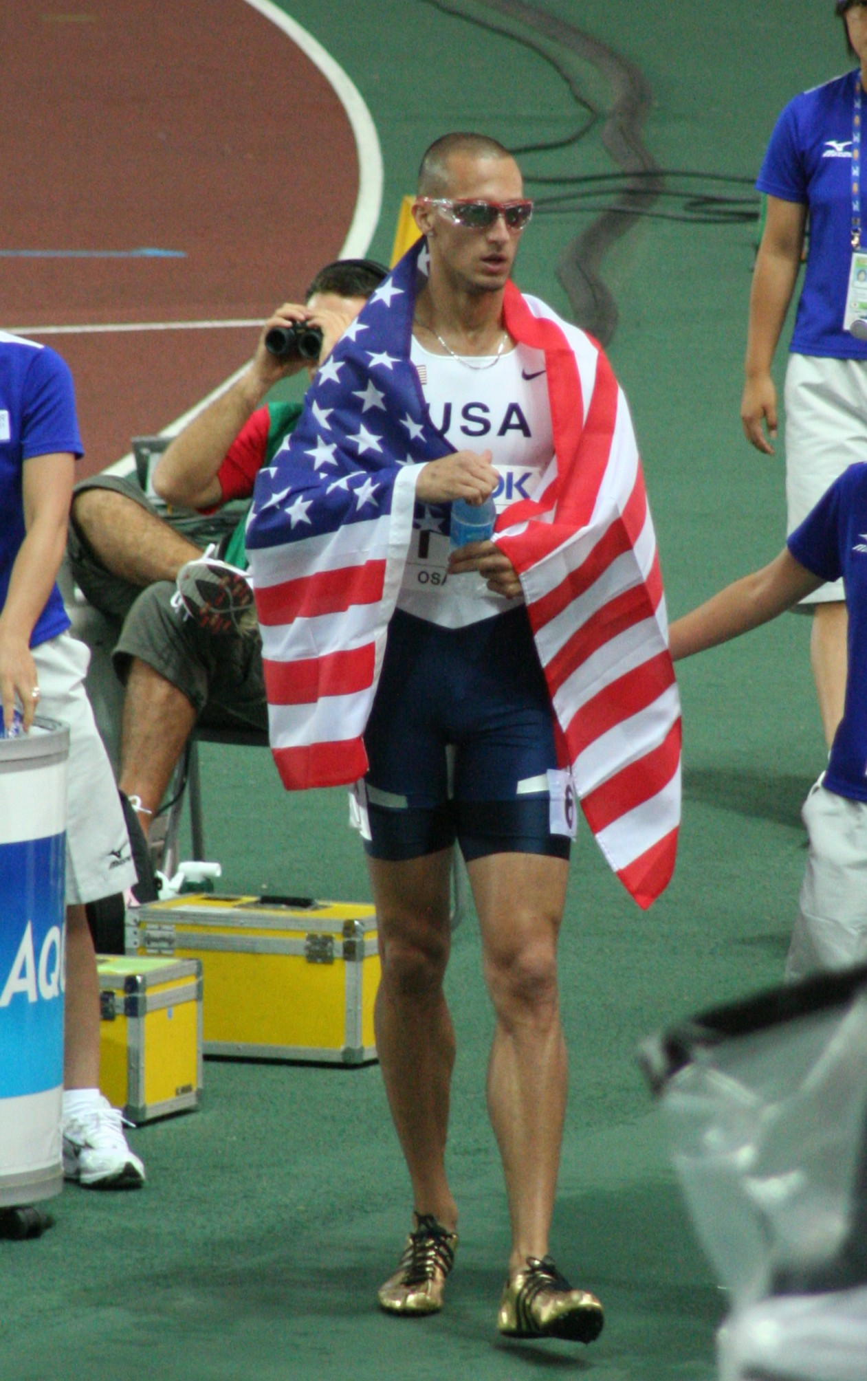 World Athletics Championships 2007 in Osaka - Jeremy Wariner after his victory over 400 metres